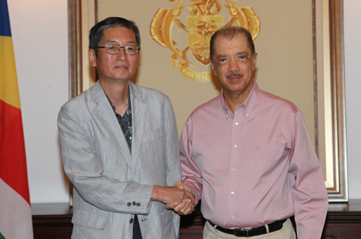 Japanese Ambassador to Seychelles Tatsushi Terada and the President of Seychelles James Michel.